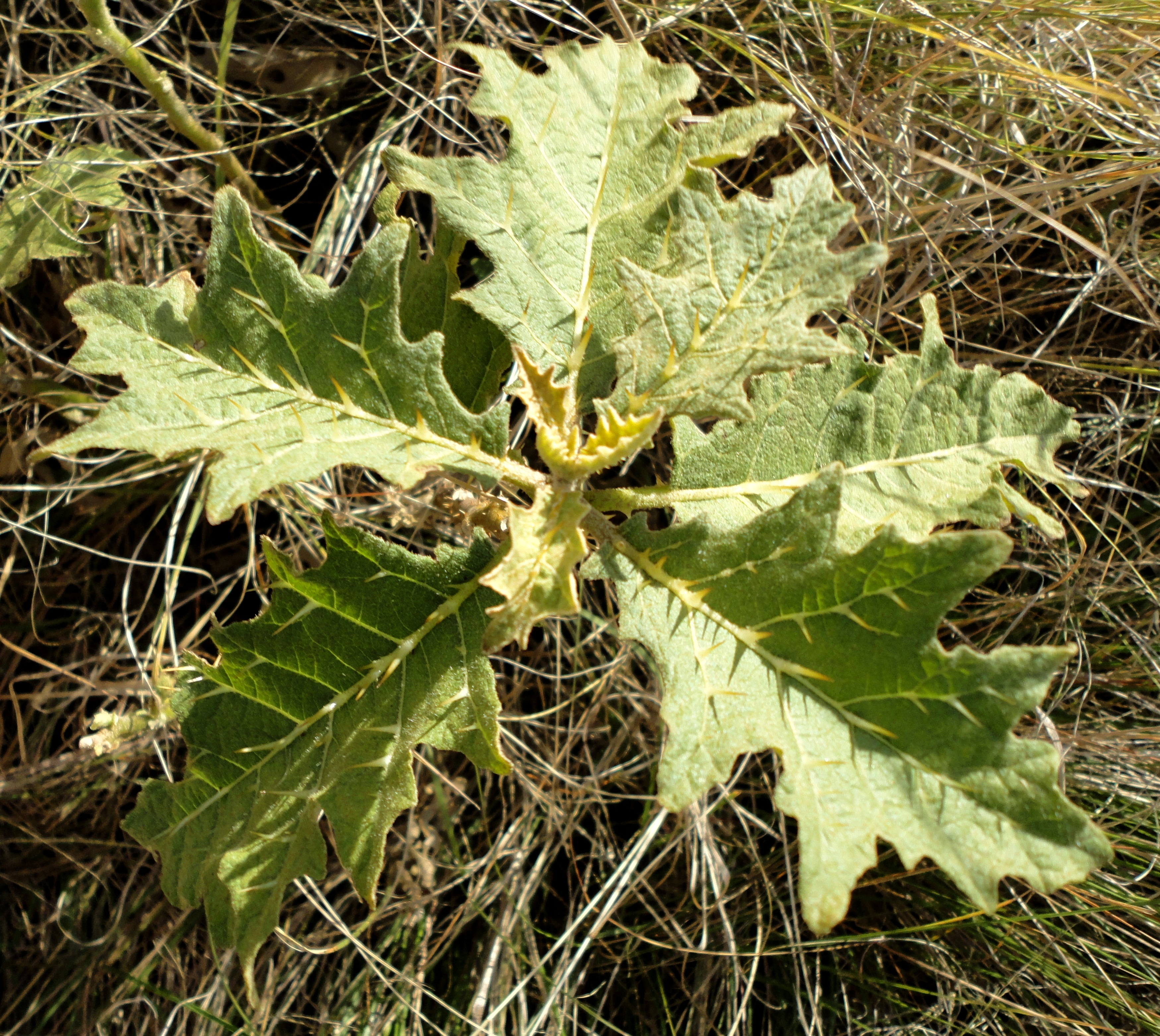 Foliage and fruit of an Indian nightshade at Louwsburg, KwaZulu-Natal